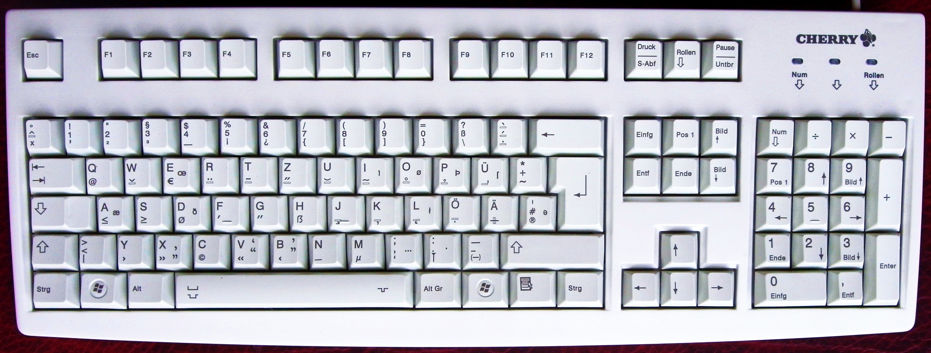 Keyboard showing the new German standard layout T2 (the specimen shown is a prototype with engravings according to DIN 2137:2012-06).